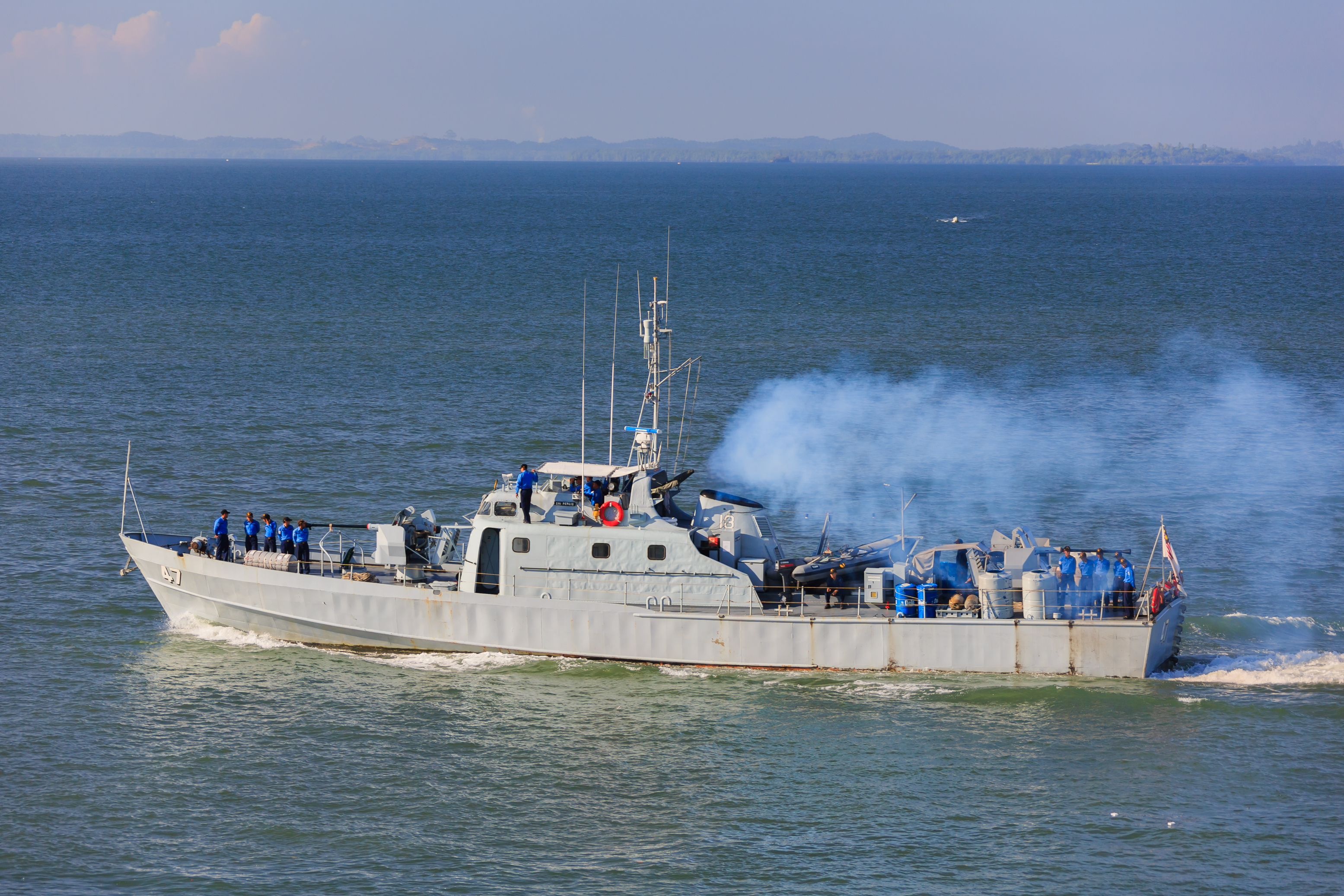 Sandakan, Sabah: The SRI PERLIS, part of the ESS forces, cruising in Sandakan Bay